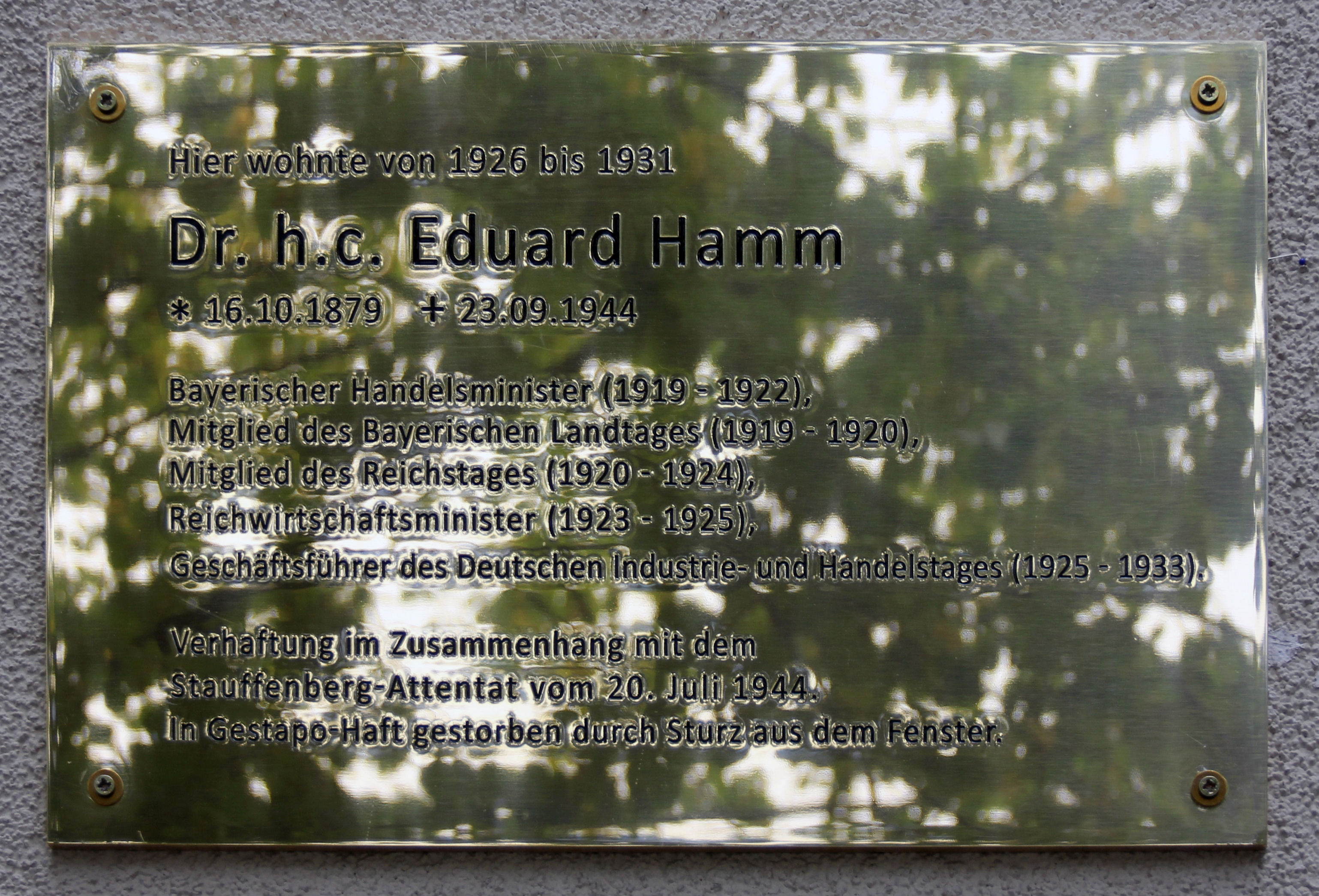 Memorial plaque, Eduard Hamm, Otto-Suhr-Allee 143, Berlin-Charlottenburg, Deutschland